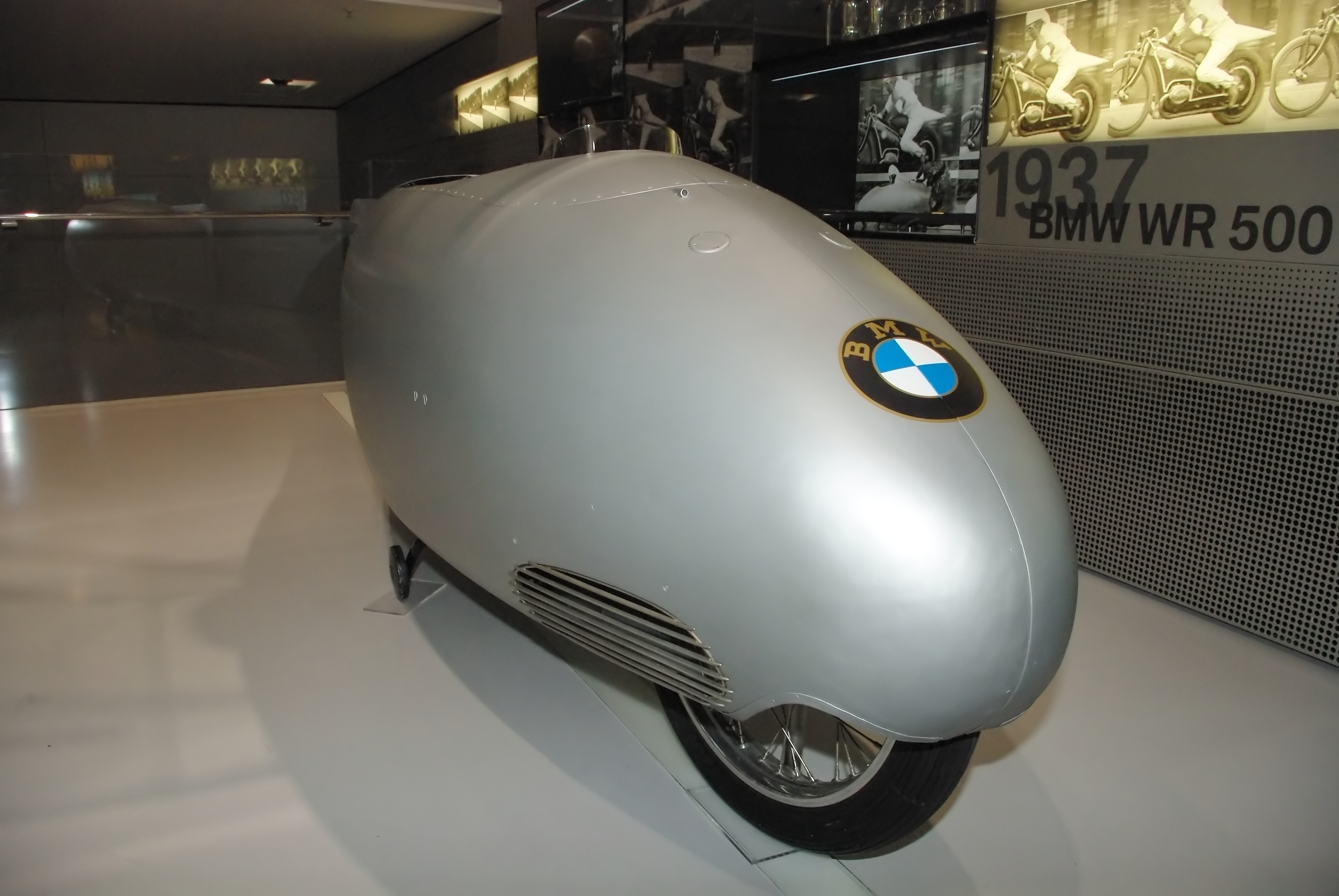 Old BMW's prototype of motorcycle at the BMW Museum, Munich, Germany.